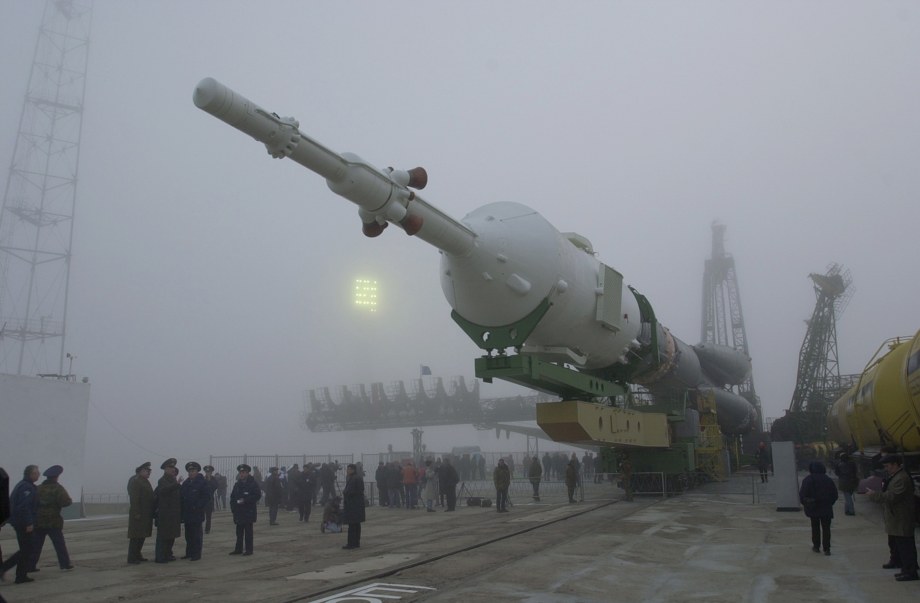 Russian Soyuz TM-31 moves to Launch Pad, 29 October 2000. The Soyuz TM-31 launch vehicle, which carried the first resident crew to the International Space Station, moves toward the launch pad at the Baikonur complex in Kazakhstan. The Russian Soyuz launch vehicle is an expendable spacecraft that evolved out of the original Class A (Sputnik).